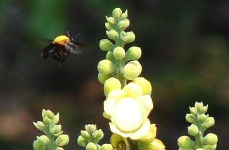 Epicharis umbraculata female: Approach to flowers of Brazil nut (Bertholletia excelsa) by distinct bee species in a commercial cultivation in the county of Itacoatiara, state of Amazonas, Brazil, 2007